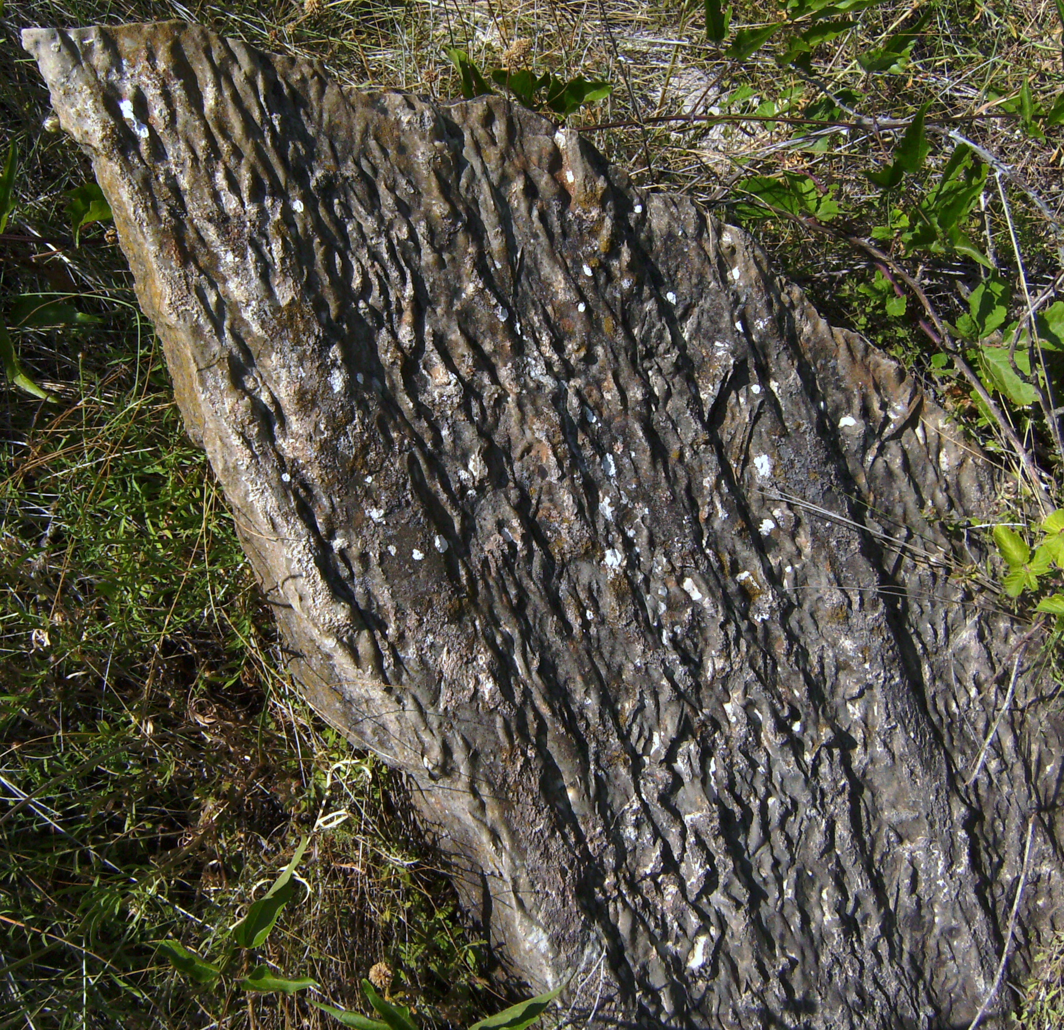 Stone with ripple marks probably from an ancient lake 30 milions years ago. Castelltallat, Catalonia